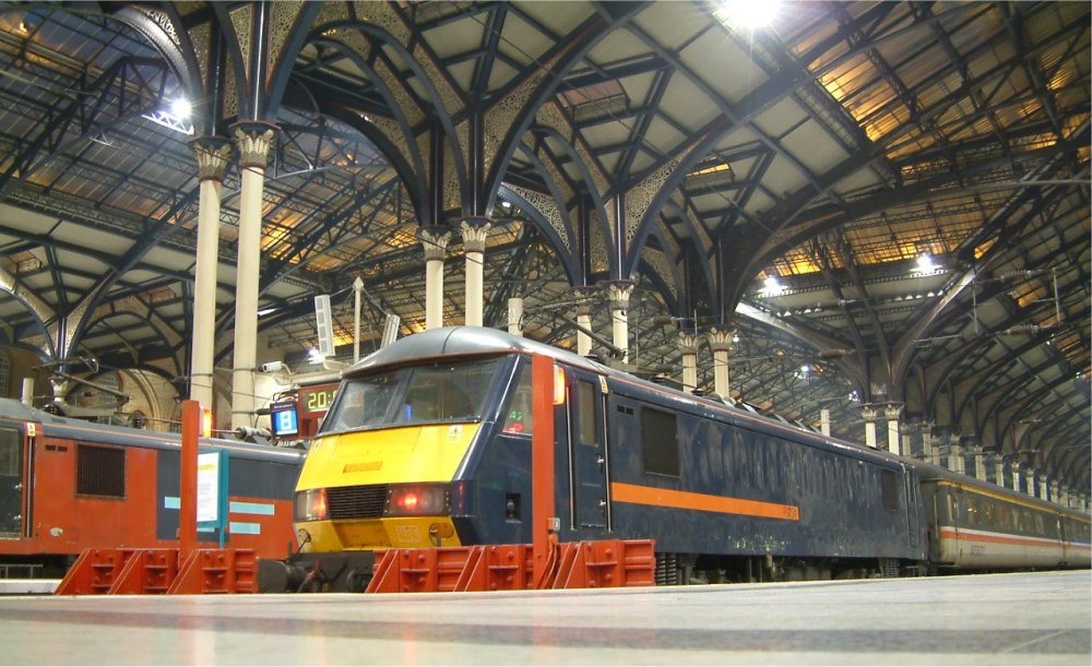 A GNER class 90 locomotive at Liverpool Street station in London Liverpool Street station roof, with an ex-GNER liveried Class 90 locomotive in the foreground. Taken around the time of the TOC refranchising.